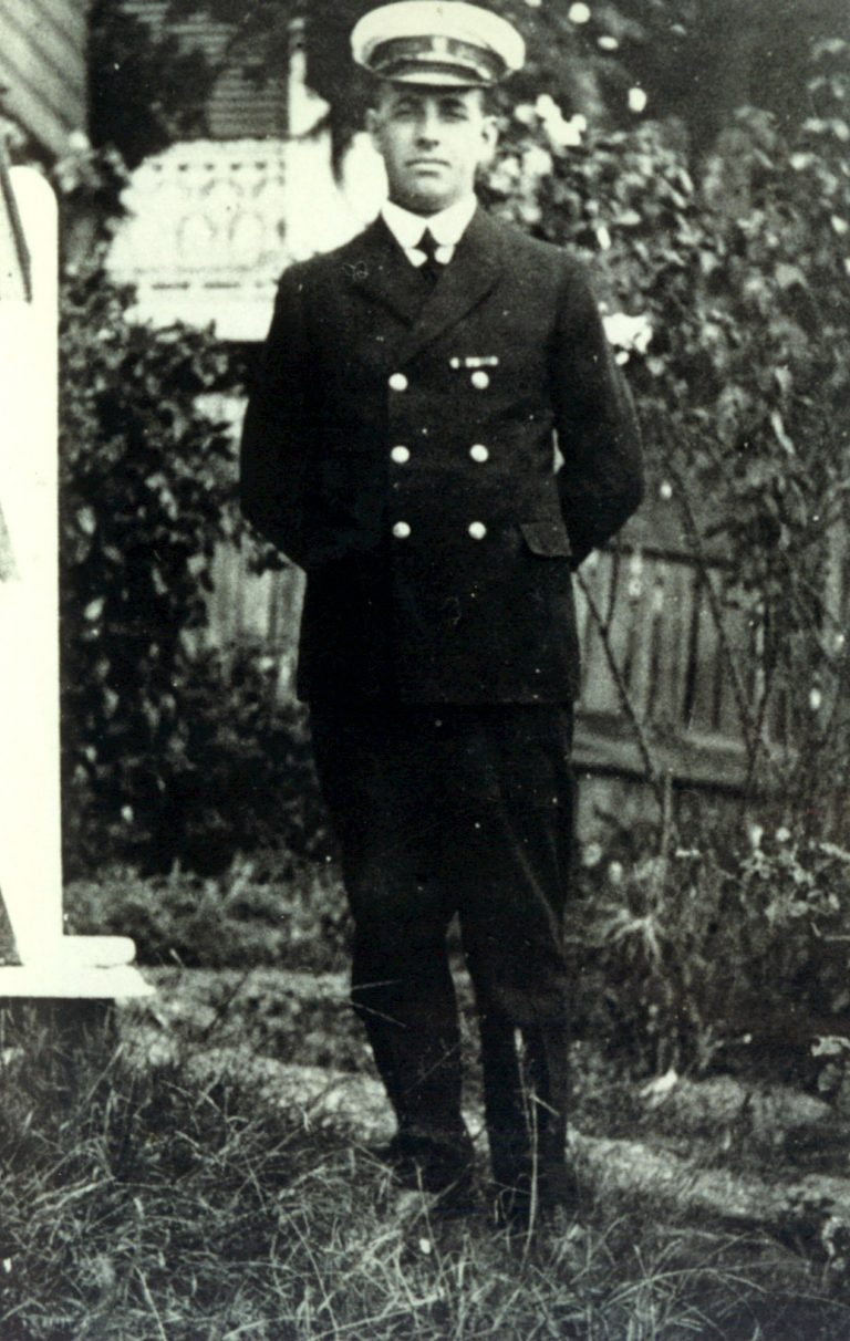 Portrait of Constable George Robert Young wearing his Water Police uniform, c1922. Constable Young died in 1939 in an RAAF amphibious aircraft which crashed while searching for missing woman Marjorie Norvall.